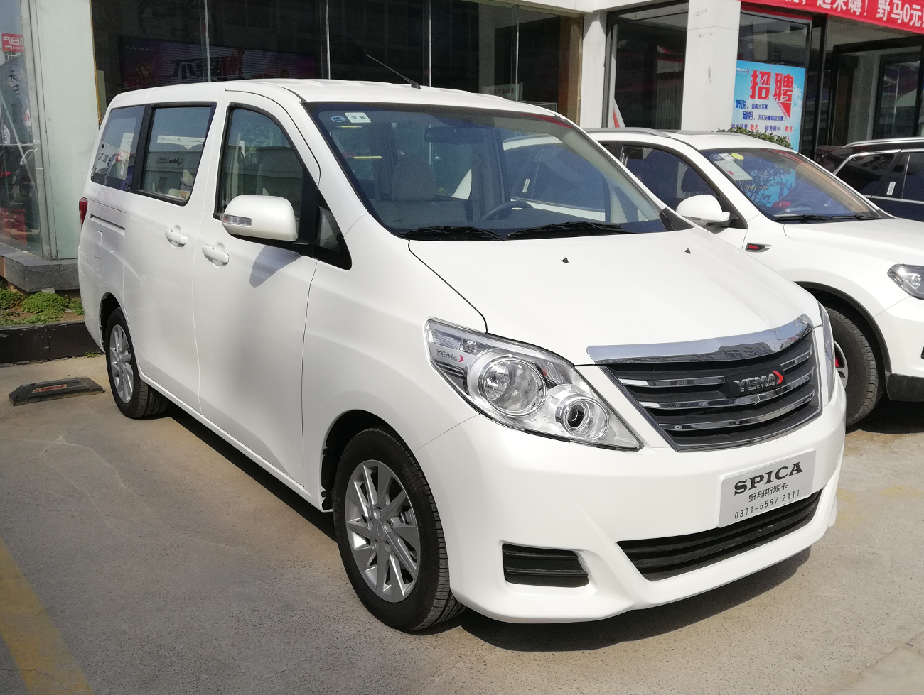 Yema Spica photographed in Zhengzhou, Henan province, China.